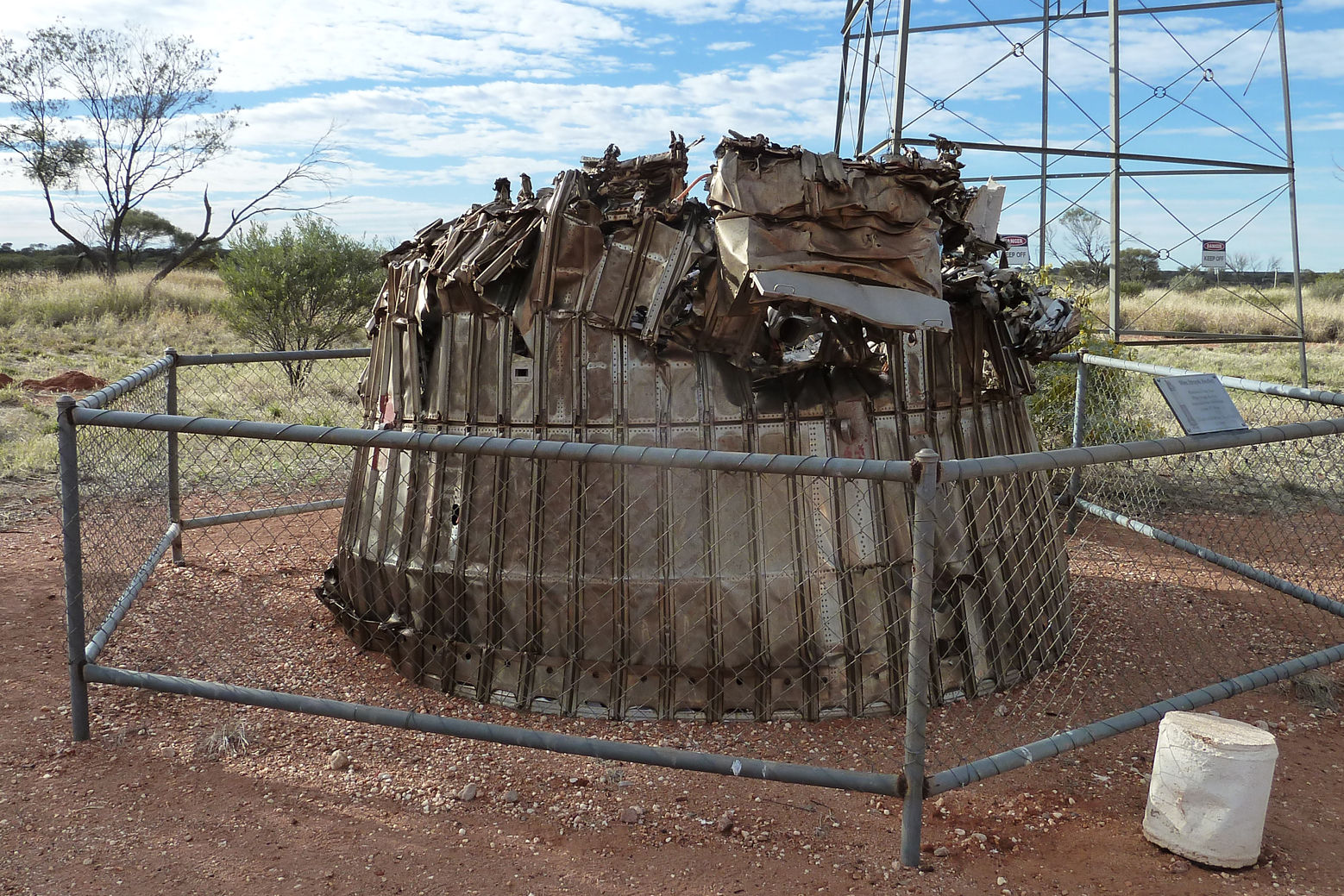 Remains of the first Blue Streak missile found near Giles in Western Australia in 1980